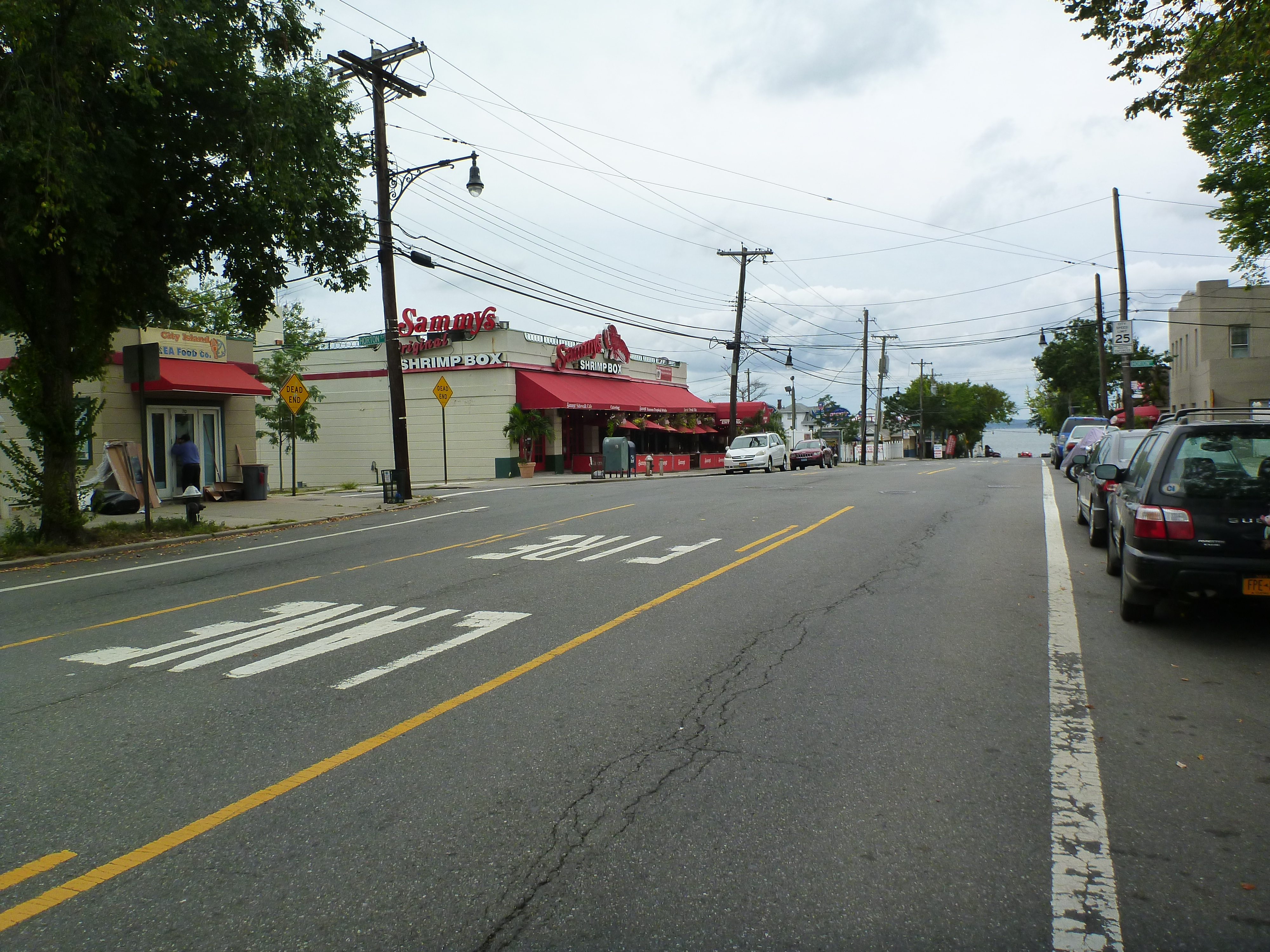 Fish restaurants on City Island, City Island Avenue,view to the south